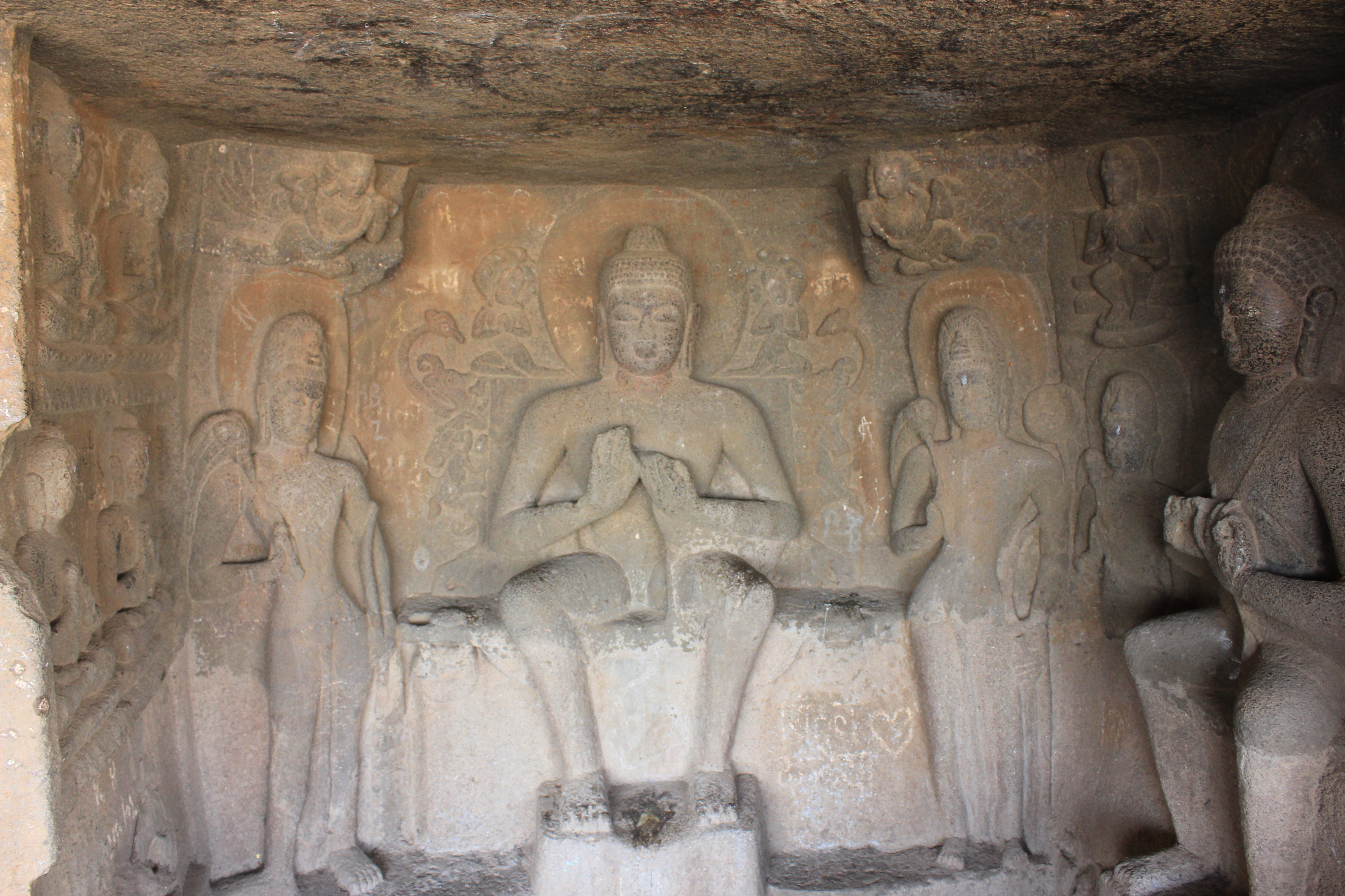 Pandev Lena Caves